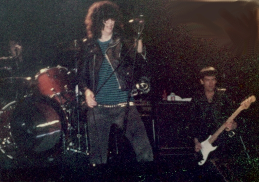 Joey Ramone and Dee Dee Ramone in concert. The Eagle Hippadrome, 1983 Ramones concert in Seattle, WA. It was the last show at the venue before it was torn down and became a parking lot. Photo was taken with a cheap 110 camera. A little later in the show, Dee Dee Ramone was hit with a beer bottle that someone thew. He tossed off his bass and jumped in to the crowd to kick the crud out of the guy. He jumped back on stage and walked off and all the while the rest of the guys just kept jamming. They took a break, then all came back on and continued with the show.